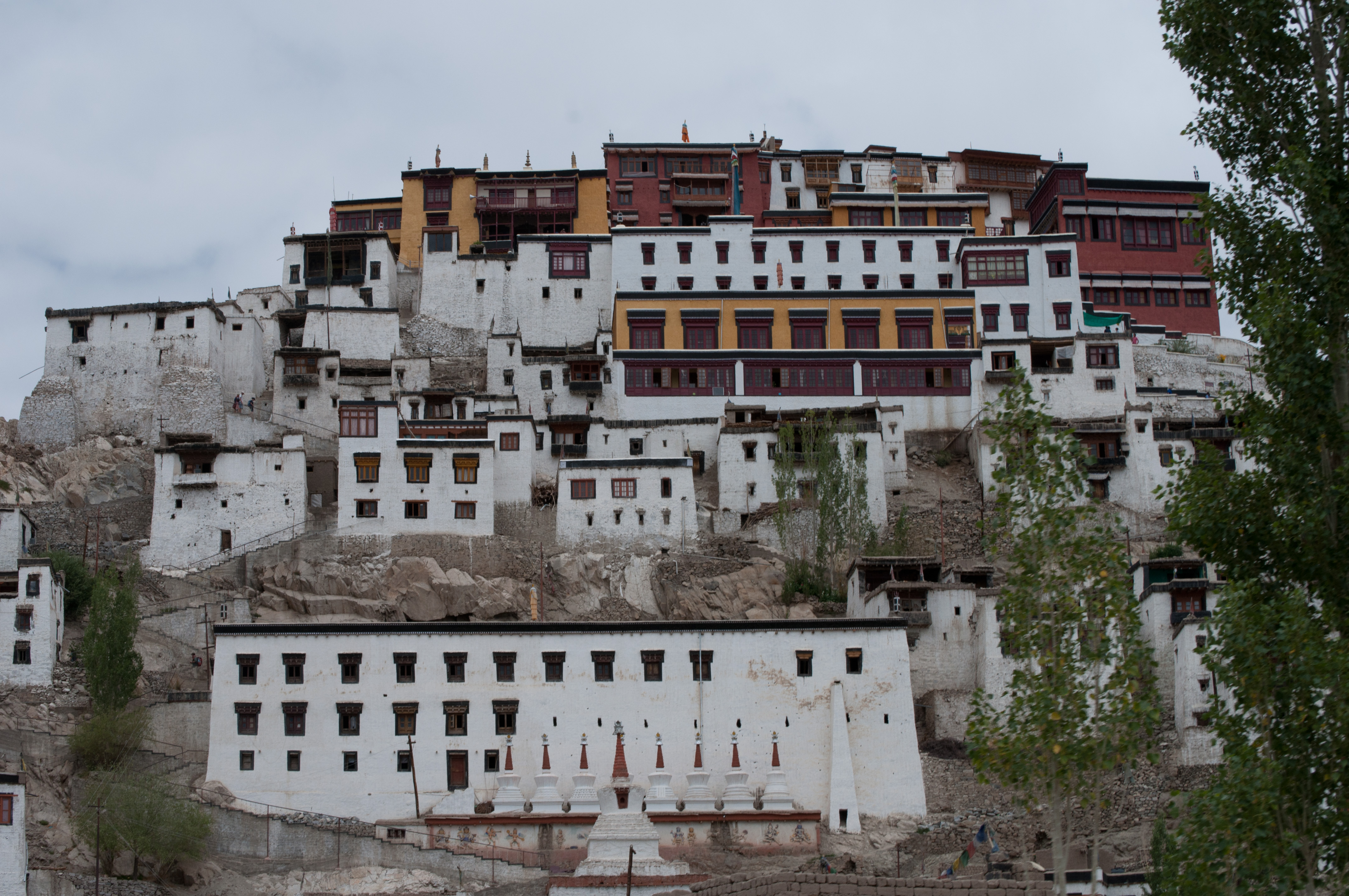 Ancient Gonpa